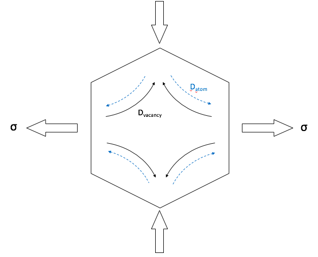 A diagram showing the diffusion of atoms and vacancies for Nabarro-Herring creep.